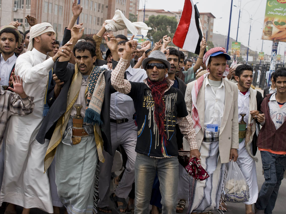 The 1st friday of Ramadan Marchers are going on the streets to demonstrate for their rights